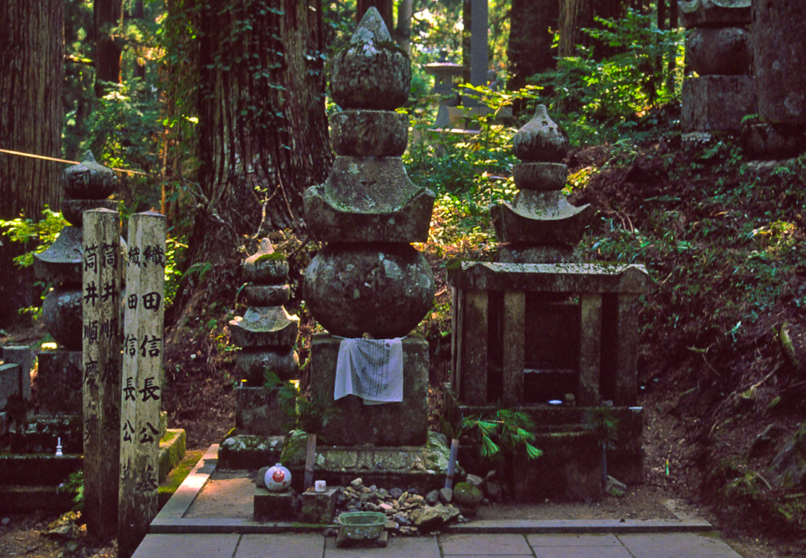 Grave of Oda Nobunaga Grave located at Mt. Koya, Wakayama Prefecture, Japan. Original photo by Frank "Fg2" Gualtieri.